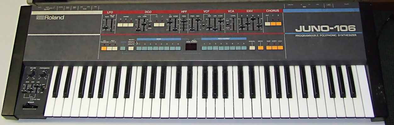 The Roland Juno 106 analogue synthesiser